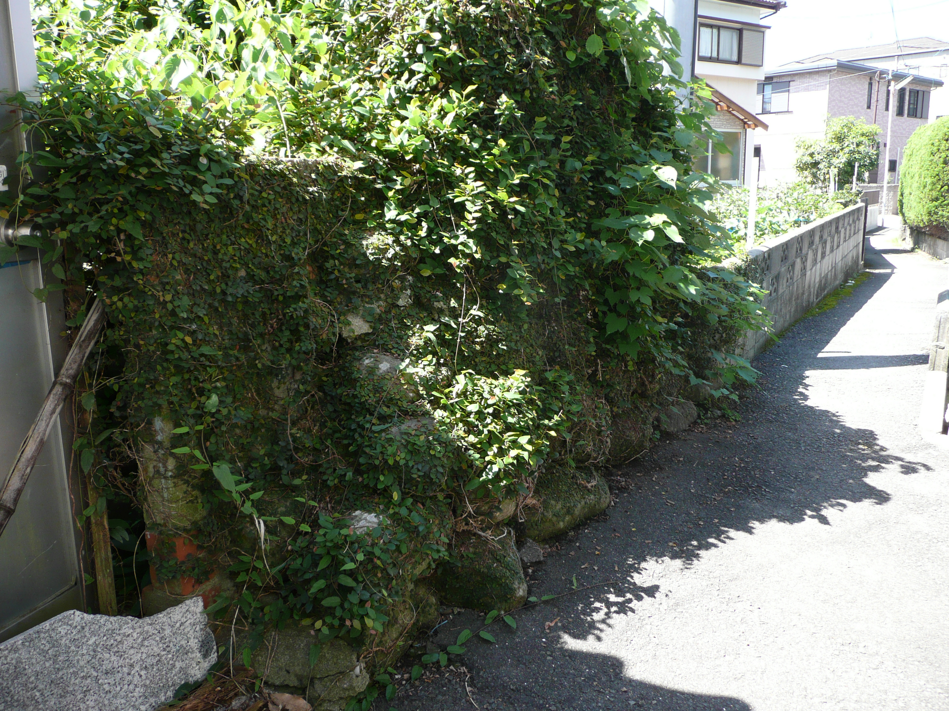 丸木館の石垣